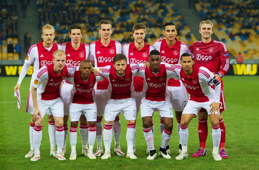 Ajax Amsterdam 2015